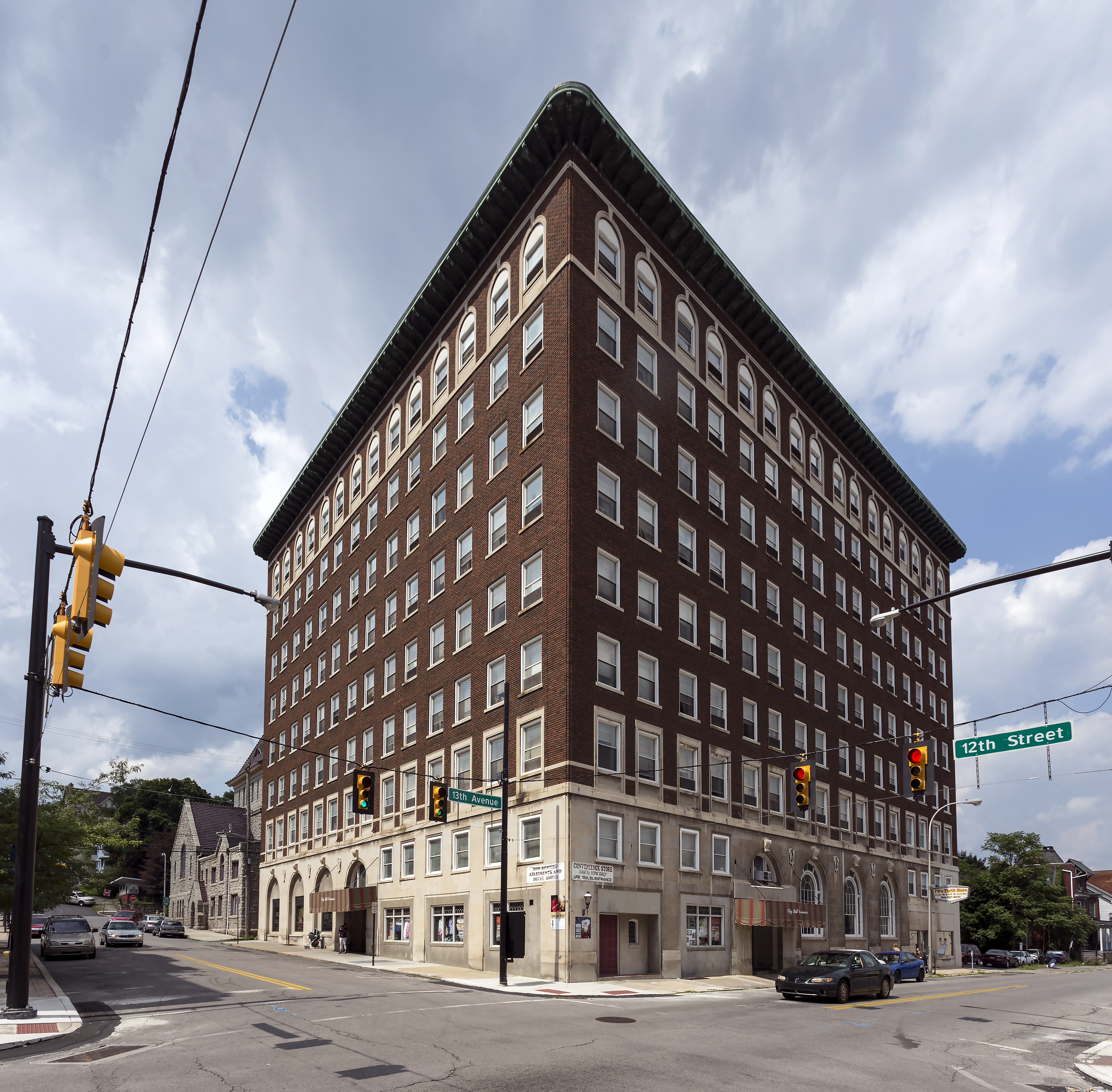 The former Penn Alto Hotel, rebranded as City Hall Commons, Altoona, Pennsylvania, USA